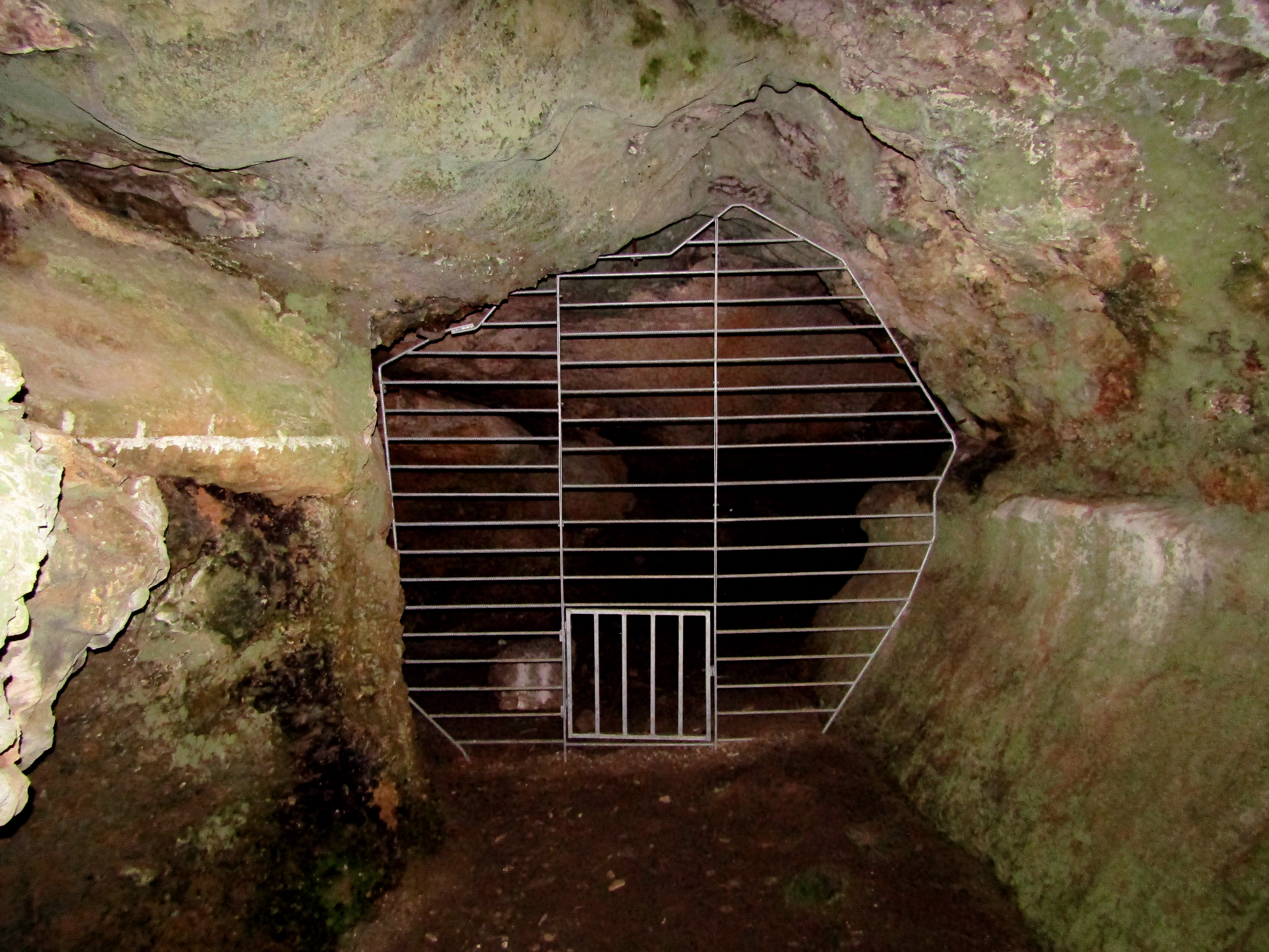 Inside the entrance of Cow Cave, showing the gate.